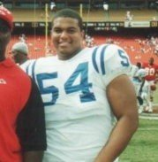 Photograph of Phil Armour of the Indianapolis Colts vs Kansas City Chiefs, c.2000